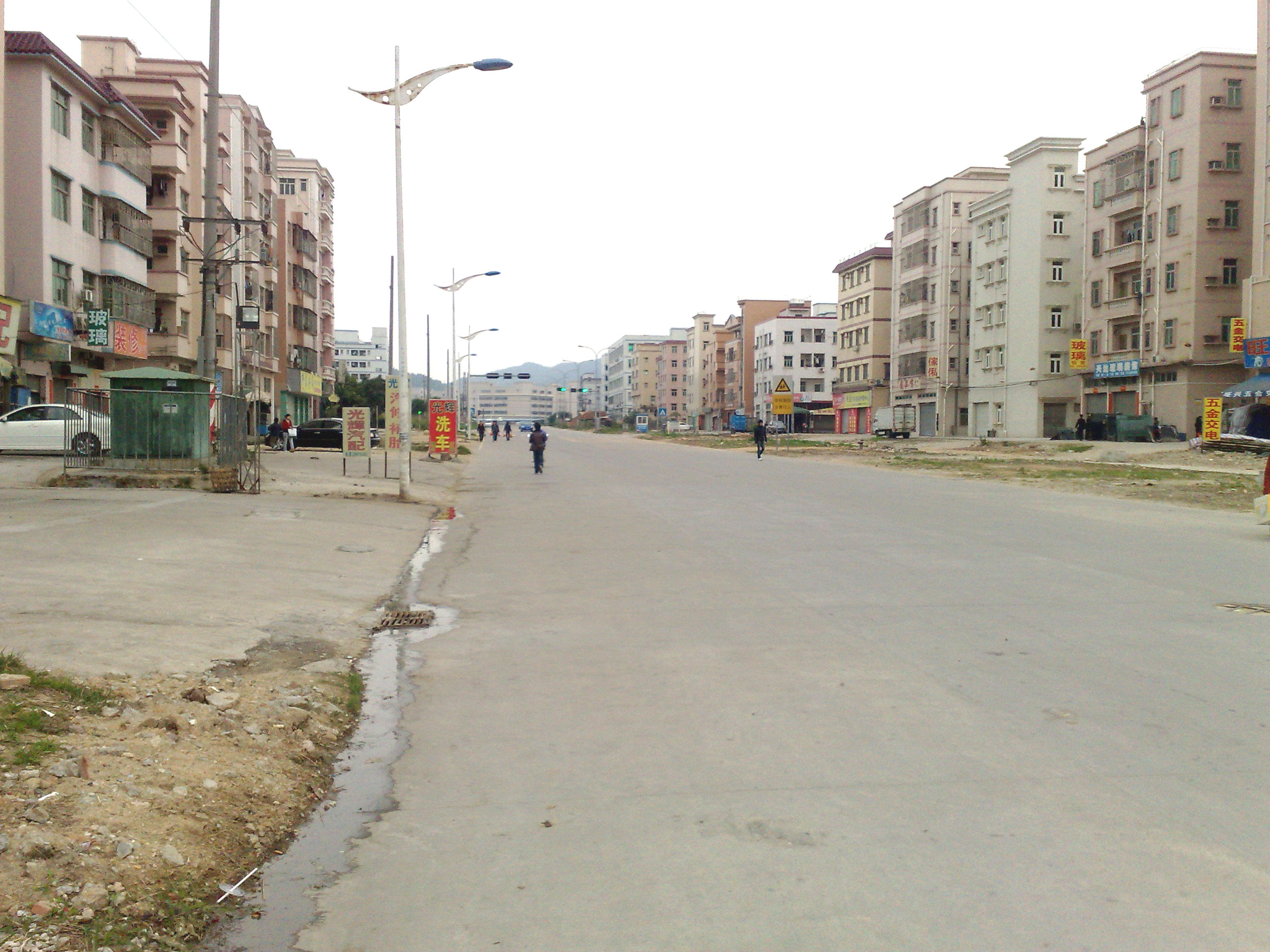 A village in Fenghuang, Shenzhen